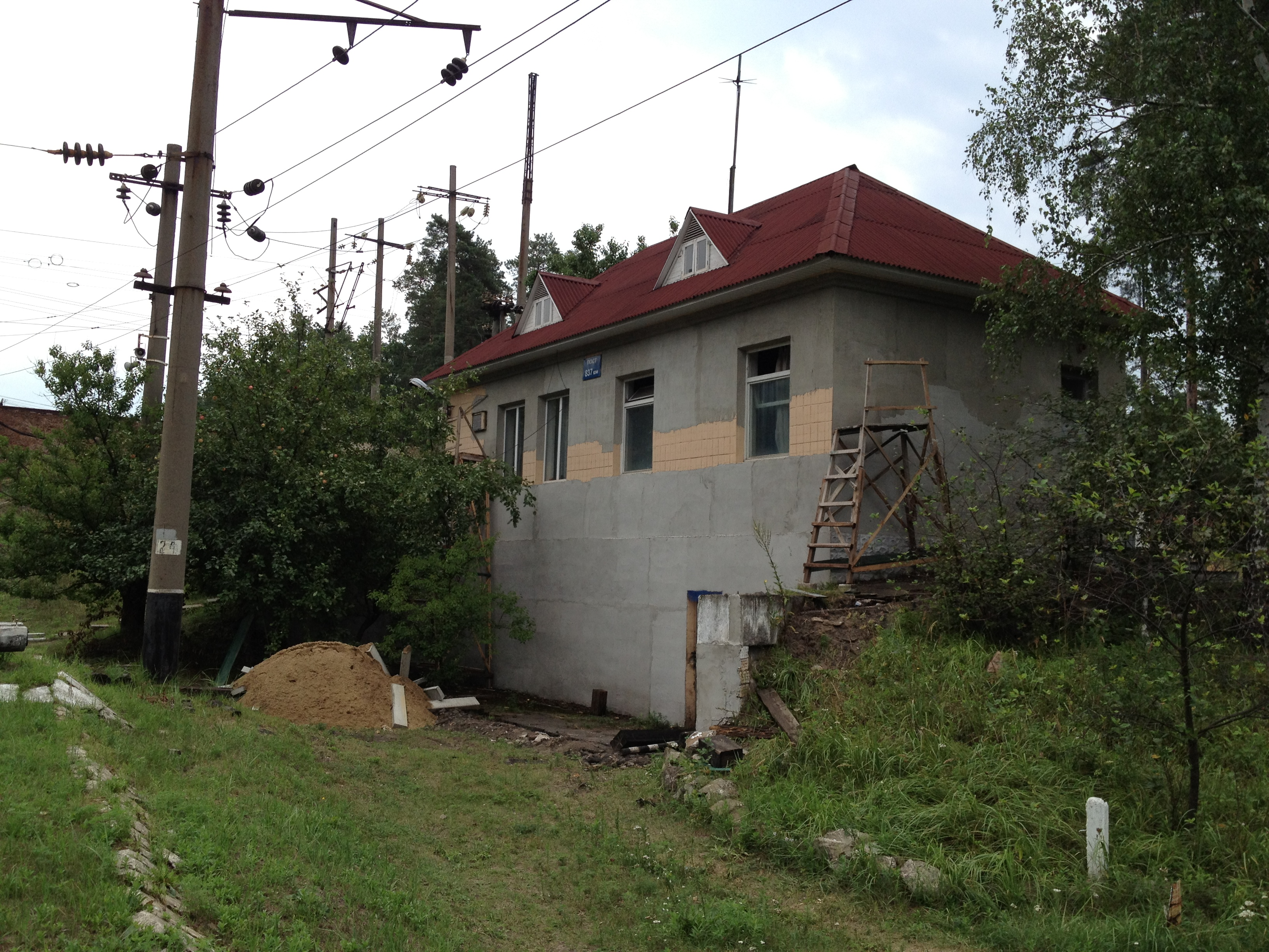 837 km Level Junction in Kyiv, Ukraine